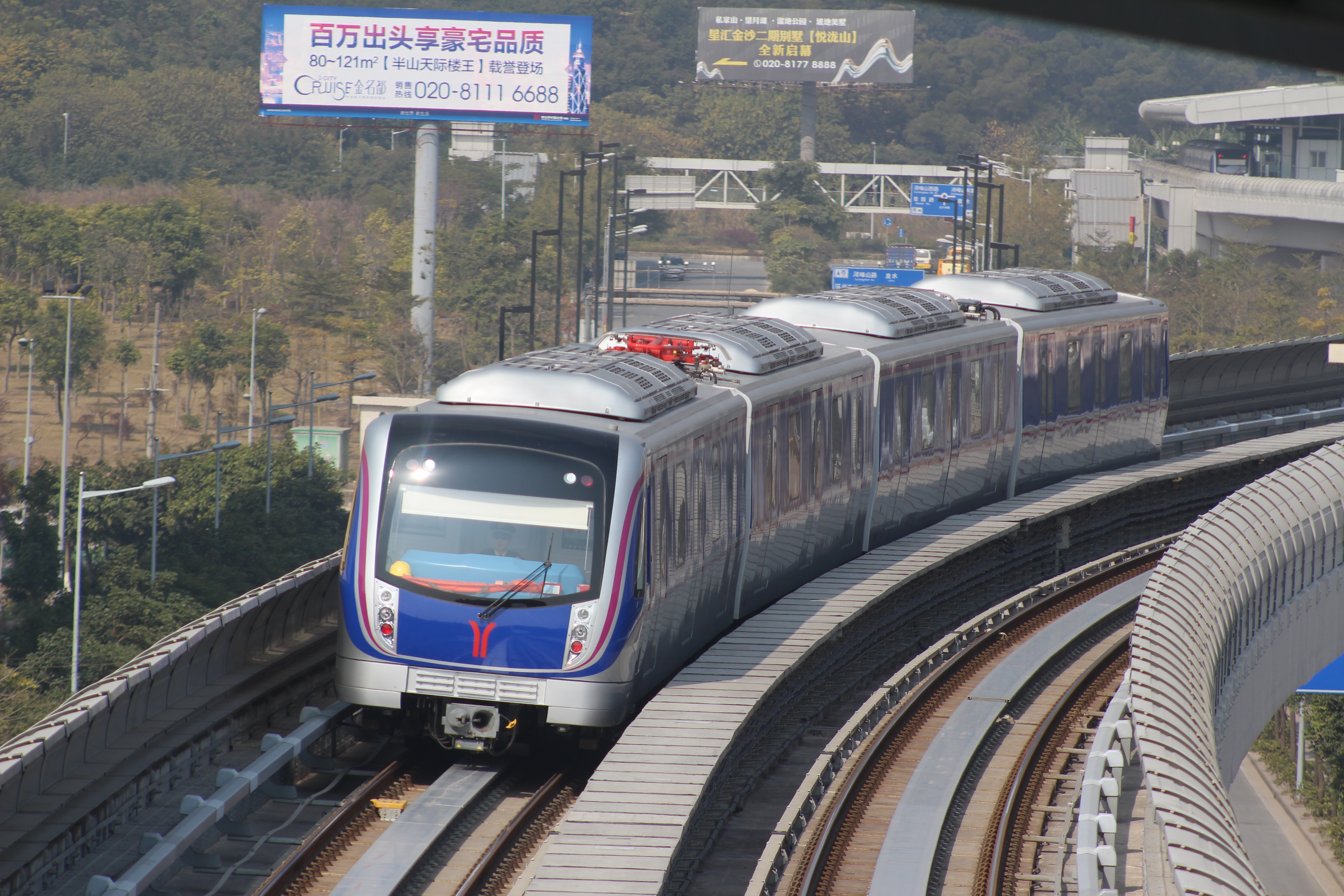 Running on the Xunfeng Gang To Hengsha section of Guangzhou Metro Line 6